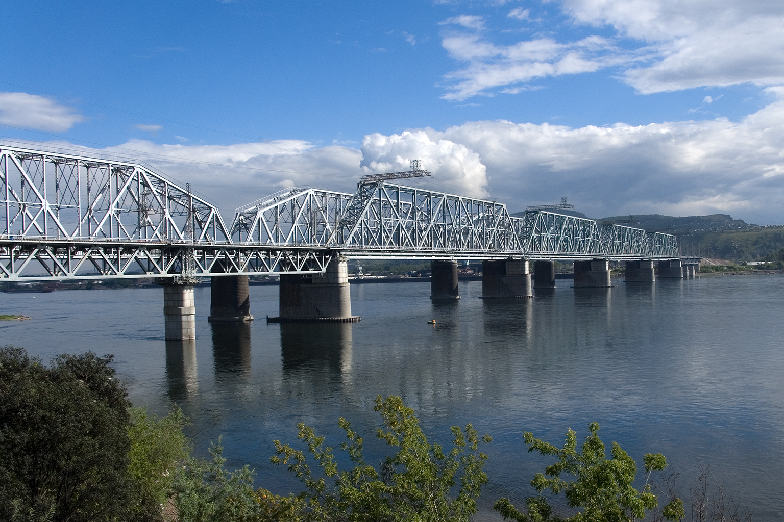 Zheleznodorozhnyjj most, the railway bridge over the Yenisei in Krasnoyarsk, Russia, view from the left bank.